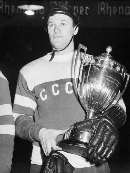 Vsevolod Bobrov of the USSR at the 1956 Winter Olympics in Cortina-d'Ampezzo, Italy